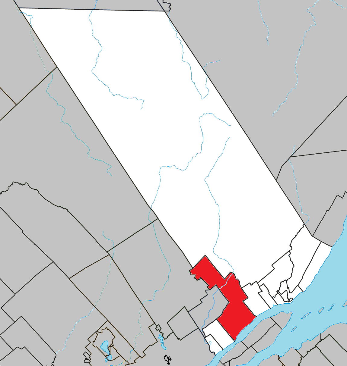 Location of Château-Richer, Quebec within La Côte-de-Beaupré Regional County Municipality.